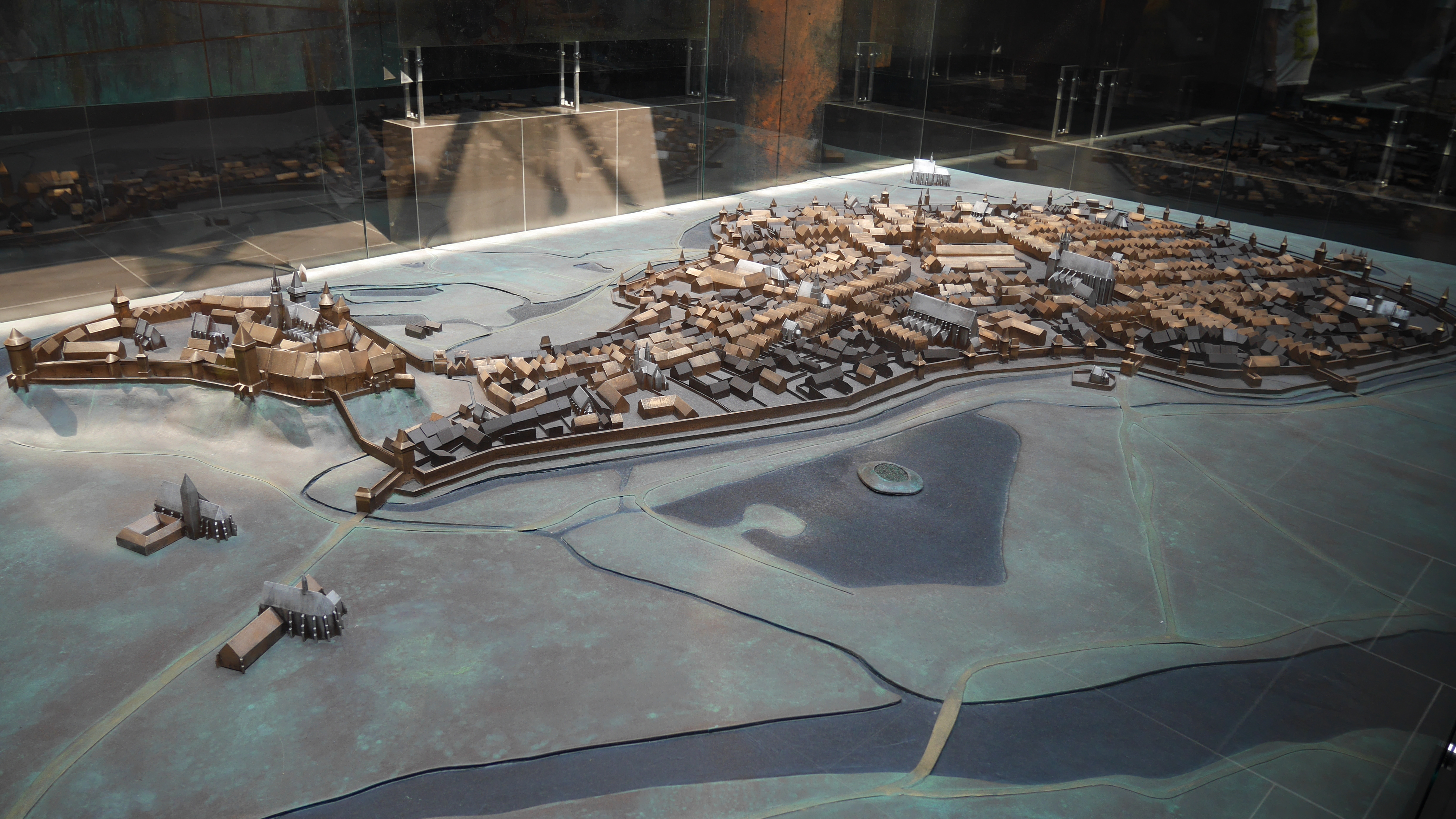 This photo was taken with Panasonic Lumix DMC-GM5 camera, thanks to Panasonic. You can see all photographs in category: Taken with Panasonic Lumix DMC-GM5.